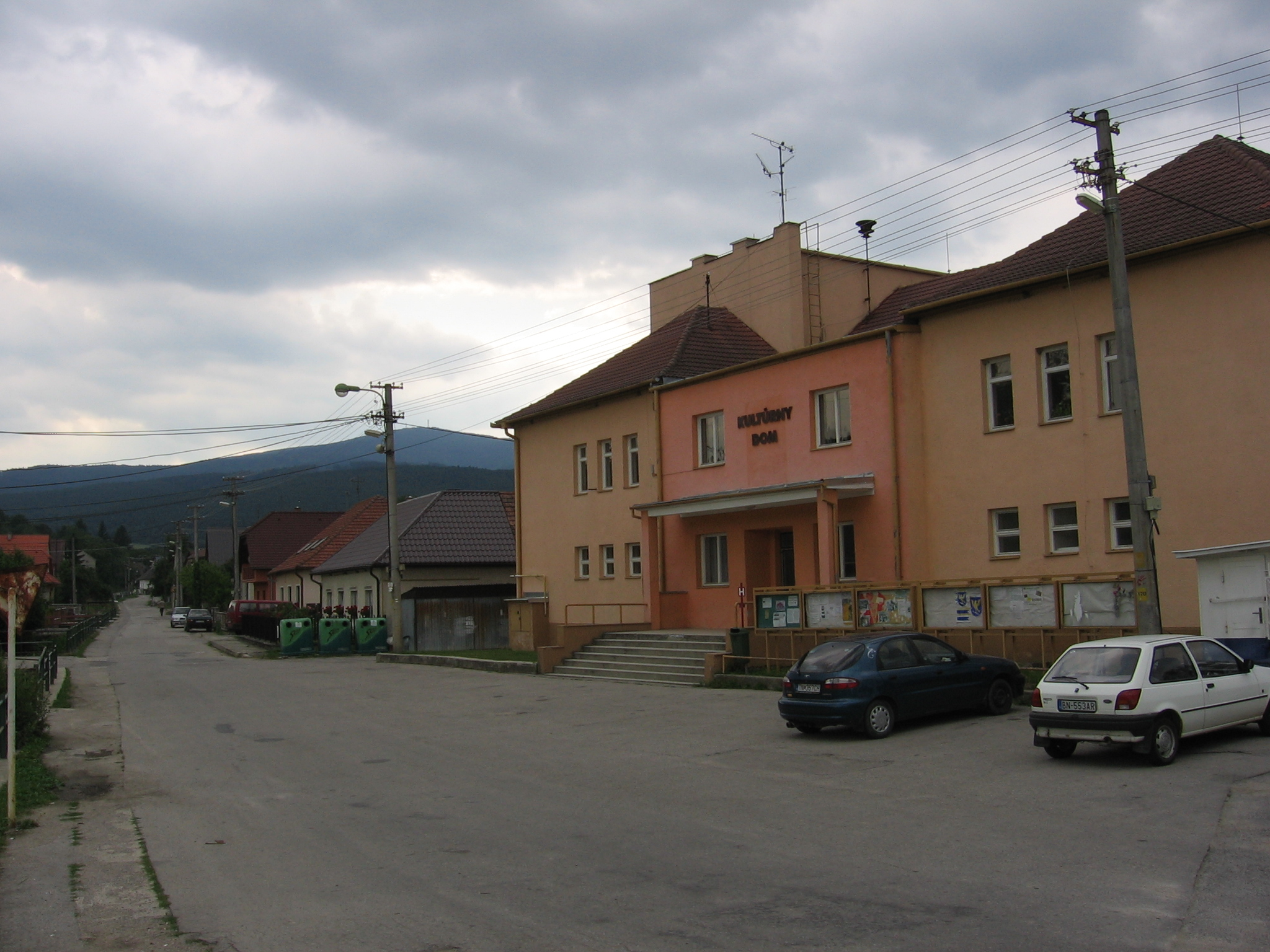 Culture centre in the Trenčianske Jastrabie, Slovakia, summer 2010.